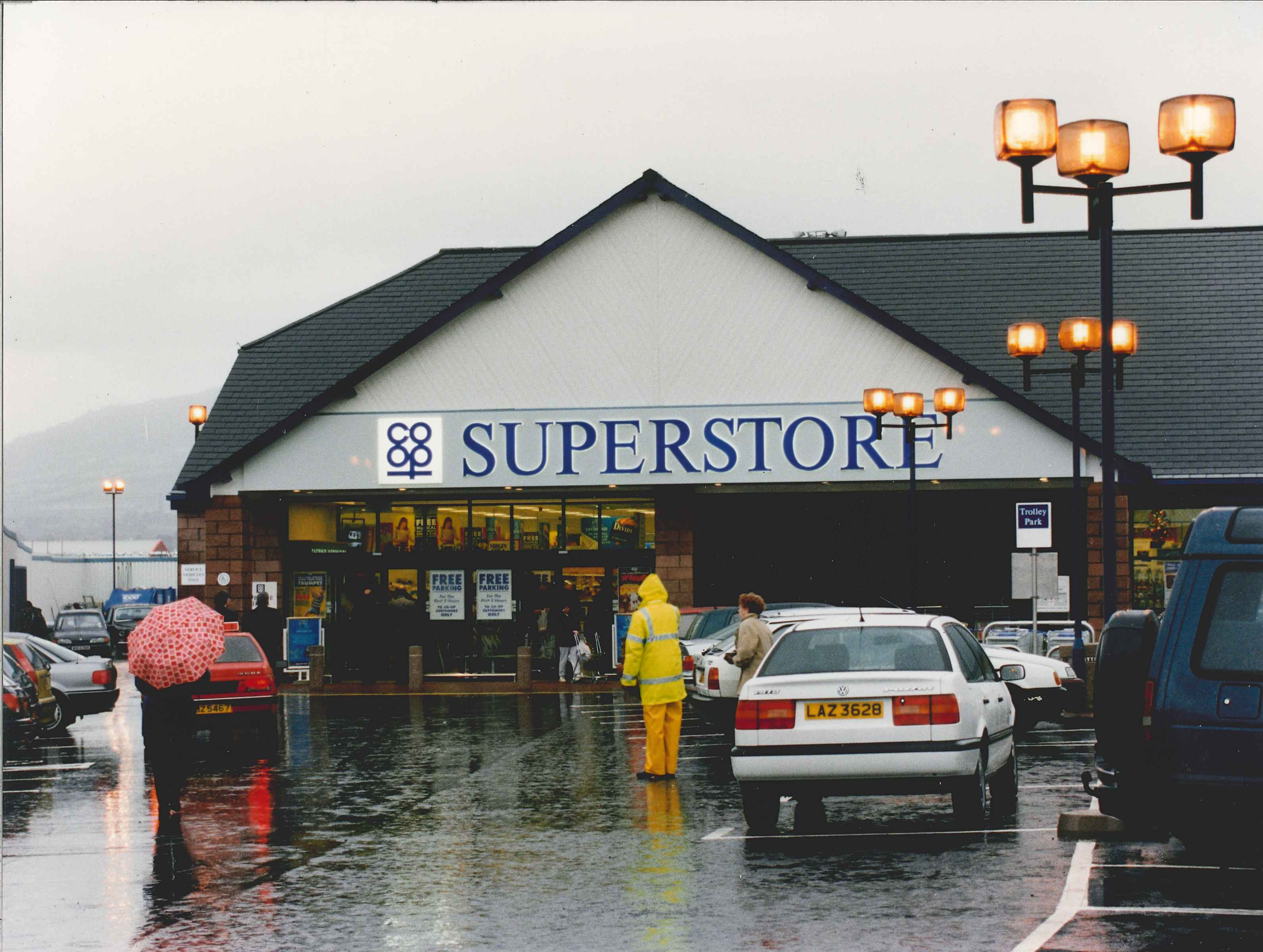 Opened Dec 1996